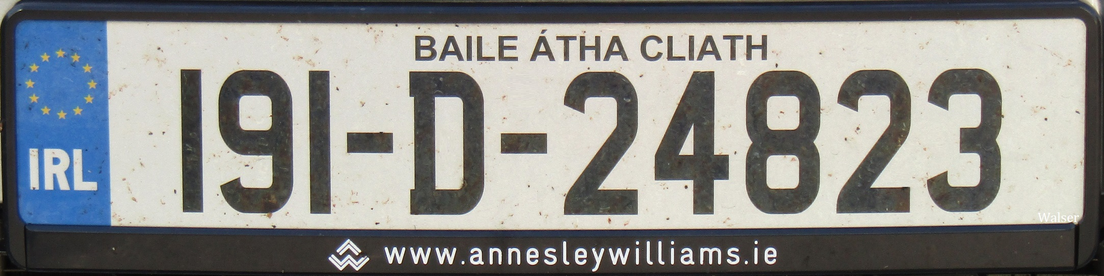 Irish 2019 Dublin license plate, seen in Liechtenstein